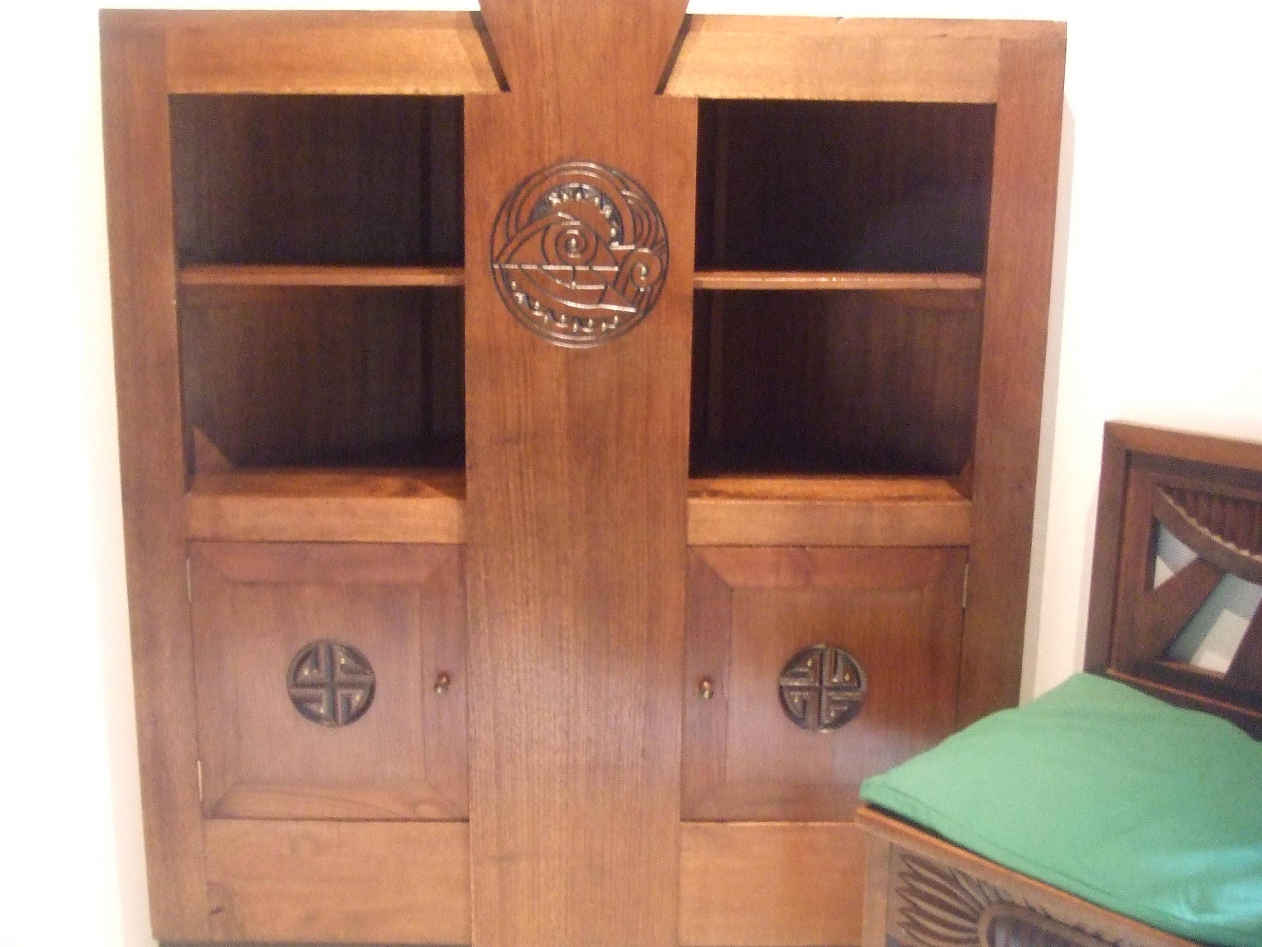 photograph of a piece of furniture designed by Jeanne Malivel and Rene-Yves Creston